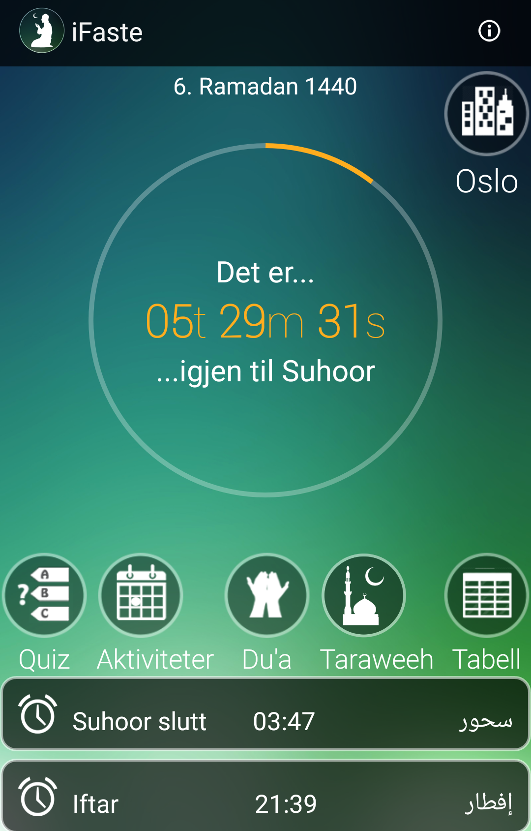 Norwegian Android app for Ramadan celebration